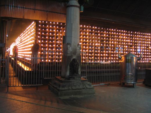 villaku